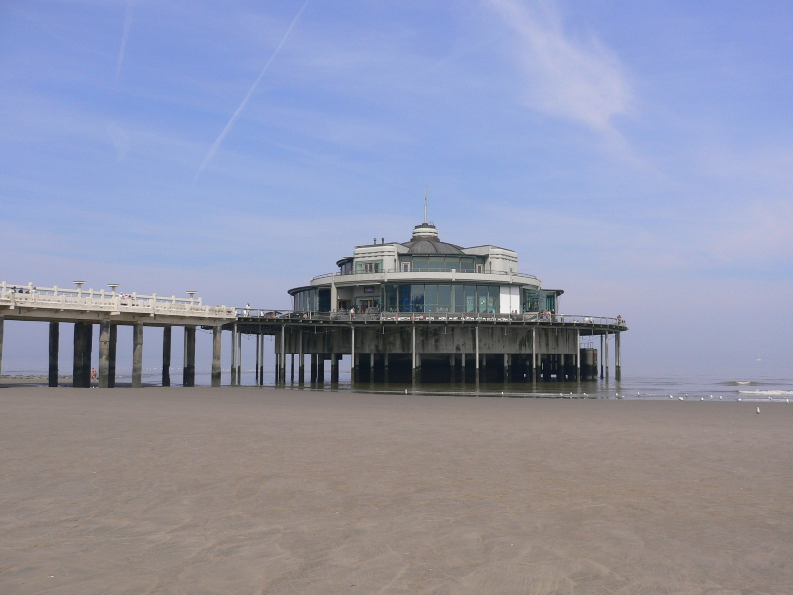 Belgium - Blankenberge - De Pier